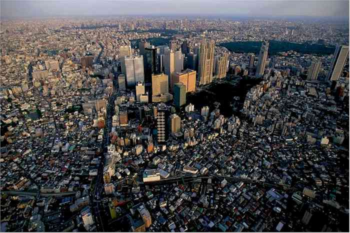 Shinjuku Skyline Tokyo Japan in October, 1996